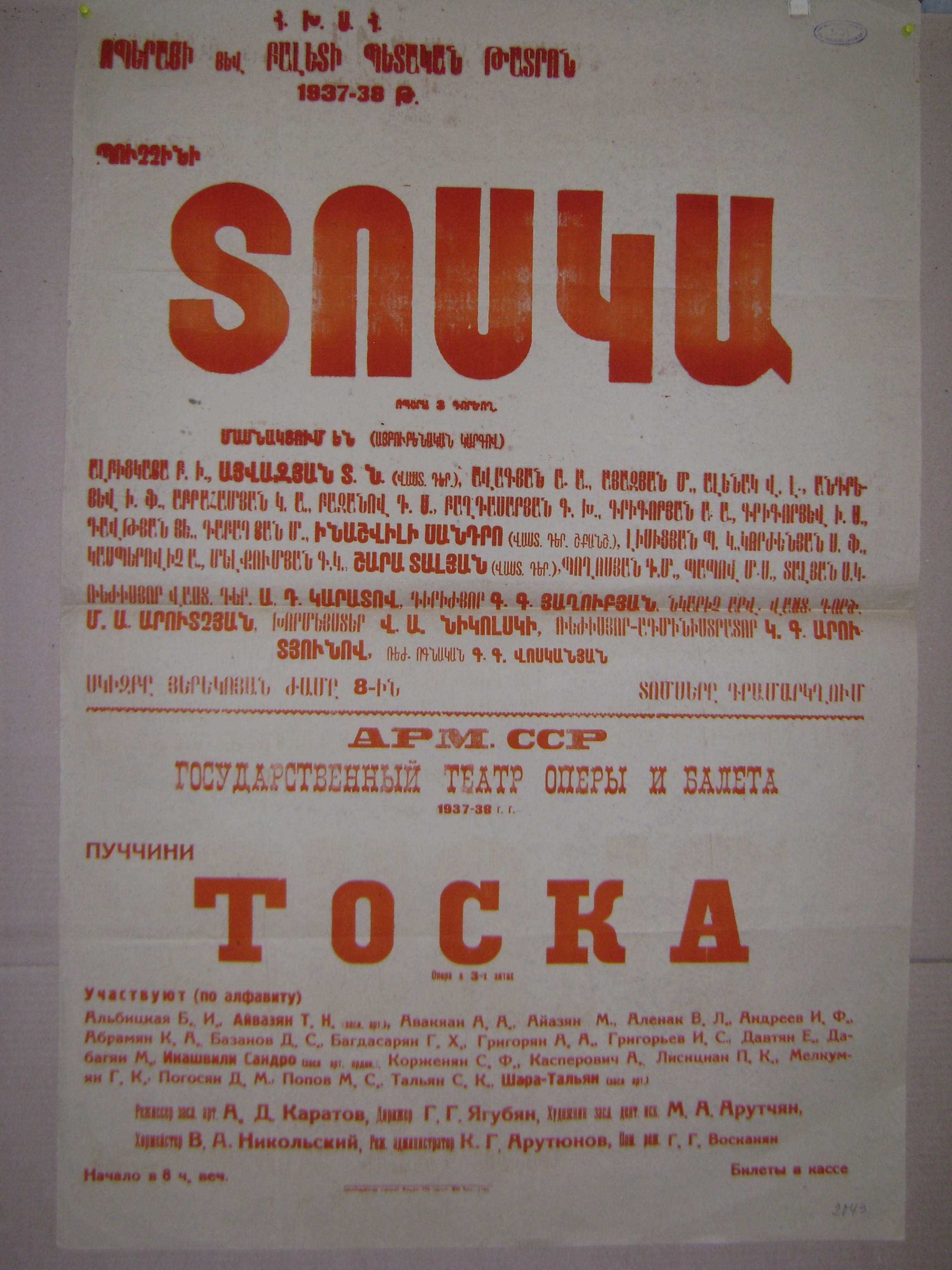 Tosca opera poster, 1937, Yerevan Opera Theatre